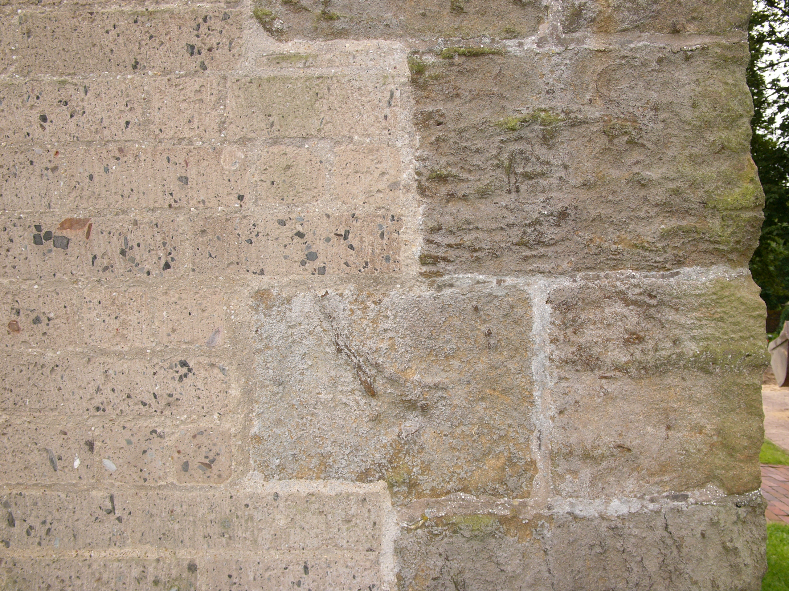 Tuff building blocks from the Eifel, church St. Willehadi in Wremen, northern Germany